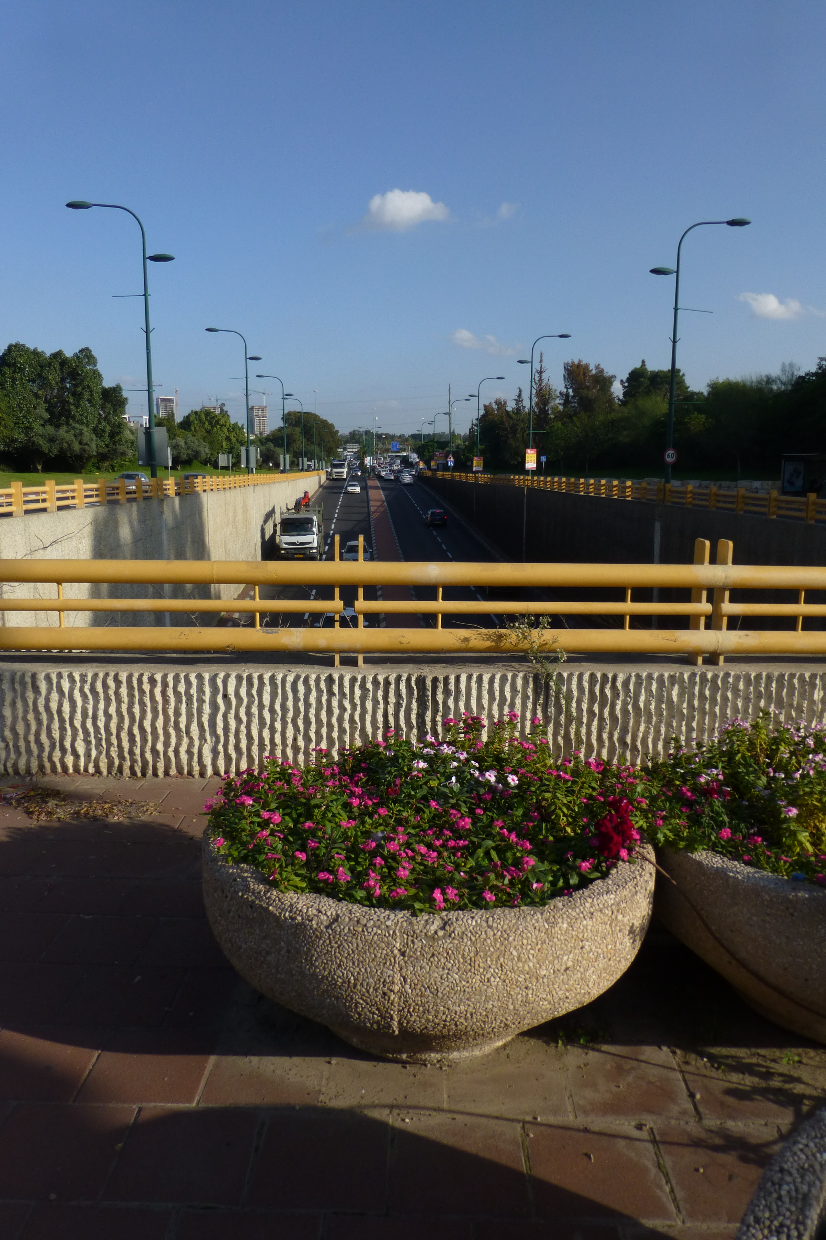 Aluf Sadeh interchange